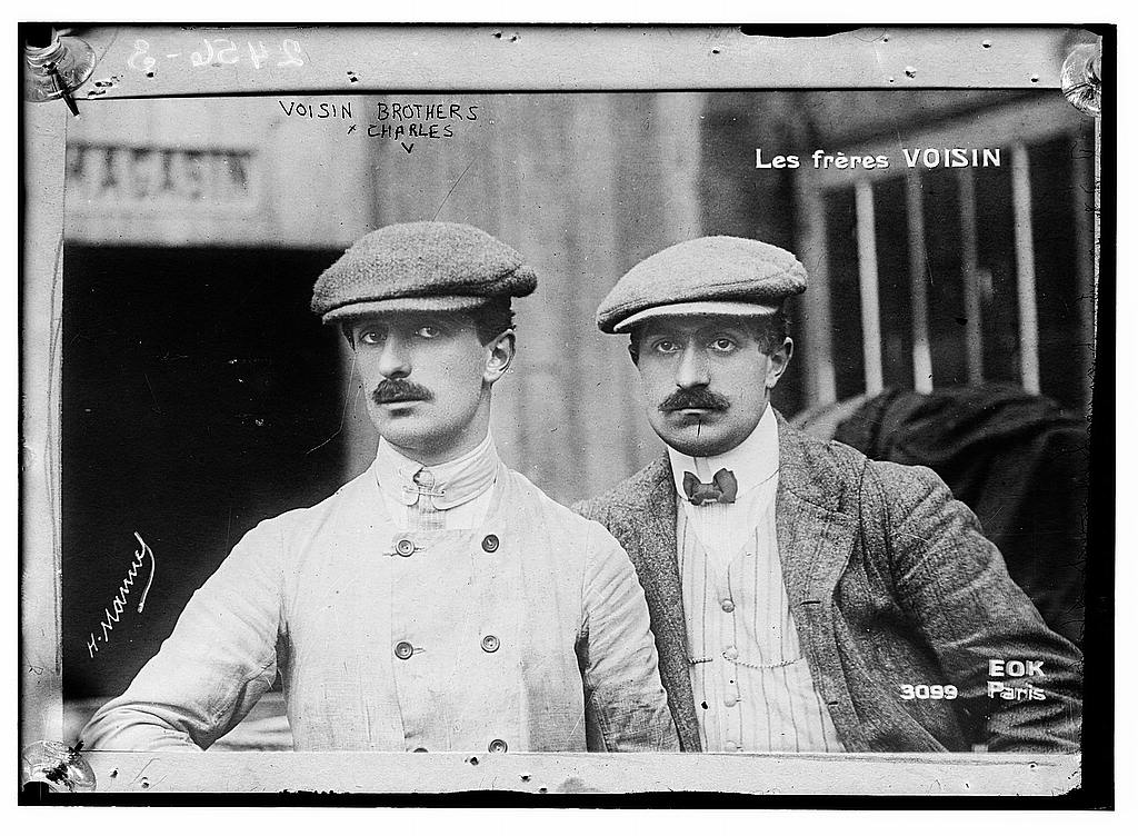 Voisin brothers. Photo taken in 1906. Note on LOC says: [The Voisin brothers, French aviation pioneers. Gabriel Voisin (1880-1973), on the left, and Charles Voisin (1882-1912), on the right]